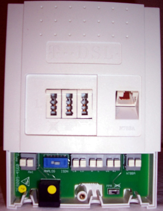 an old german ADSL splitter, POTS/ISDN switchable